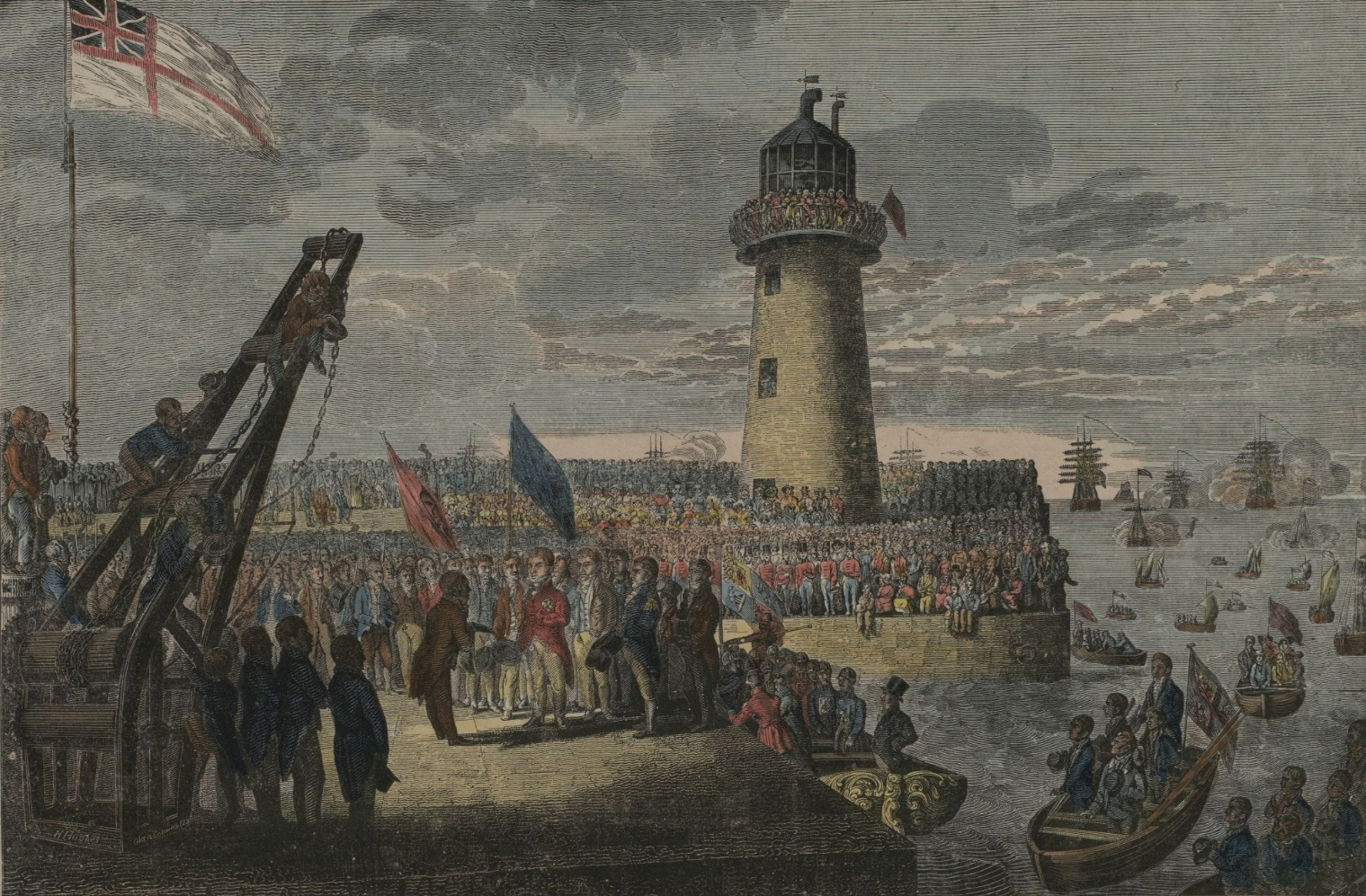 The landing of his Majesty, George the Fourth, at Holyhead,August 1821 on HMS Royal George (ship, 1817)[1]